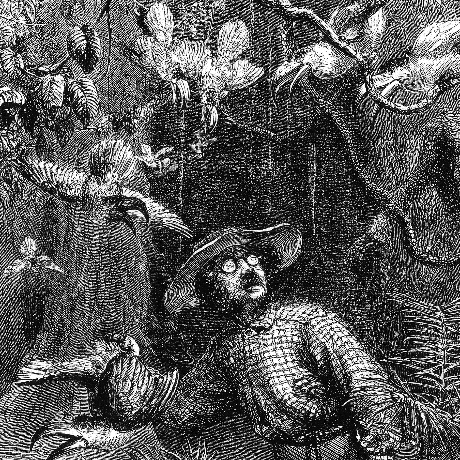 Detail from Frontispiece to Henry Walter Bates's 1863 The Naturalist on the River Amazons by Josiah Wood Whymper